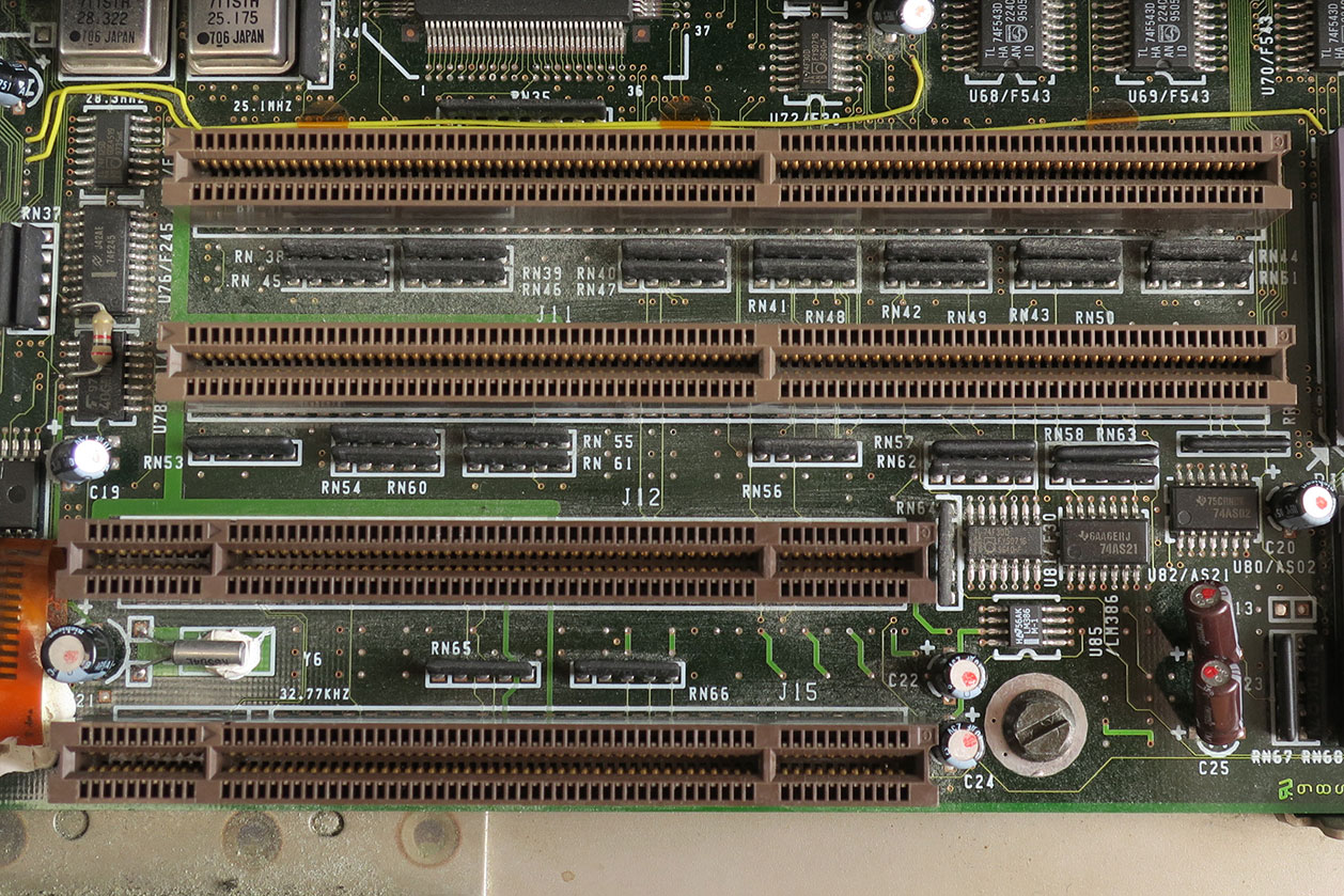 Two 32-bit Micro Channel connectors and two 16-bit with Auxiliary Video Extension, on IBM PS/55 Model 5550-T (PS/55).